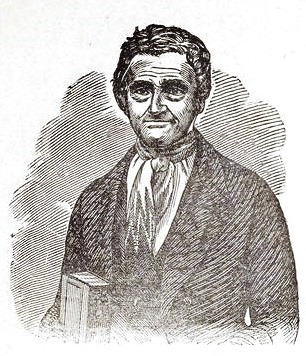 Woodcut portrait of American pioneer and diarist John Udell (1795-1774). The portrait is from the frontispiece of Udell's Incidents of Travel to California Across the Great Plains published in Ohio by the Ashtabula Sentinel in 1856.